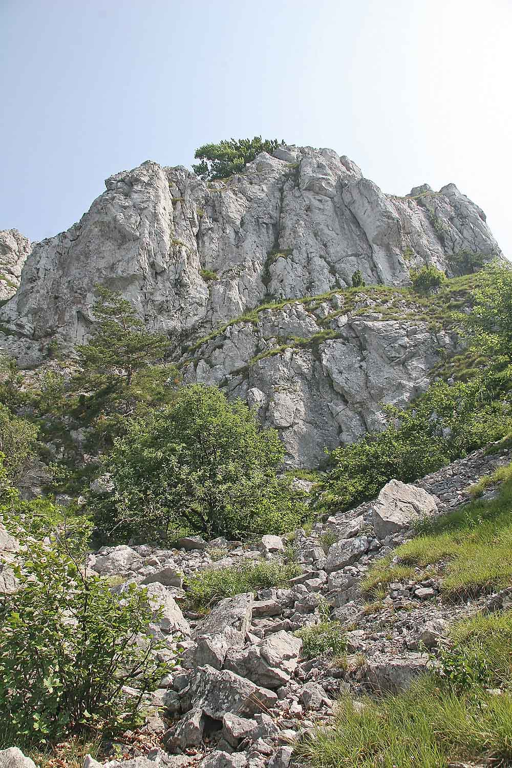 Vápeč Hill (955 m), Strážovské vrchy Mountains, District Ilava, Slovakia. Highest part of the hill is composed of triassic Wetterstein Limestone of Nedzov/Vererlín Nappe - Nappe outlier of Hronicum.